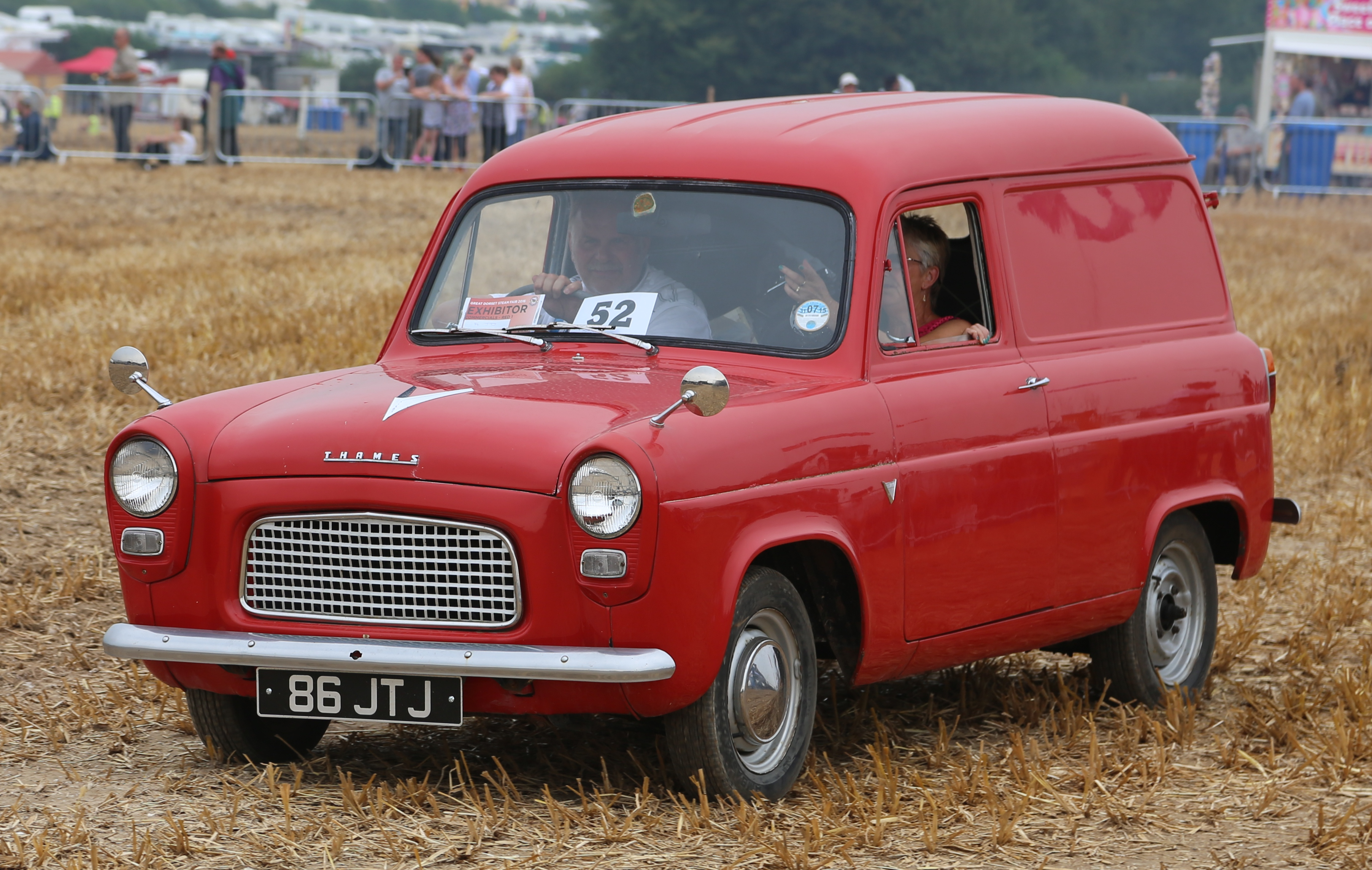 A 1959 ford Thames 300E